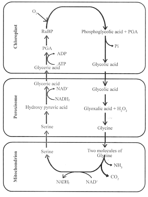 C2 Cycle